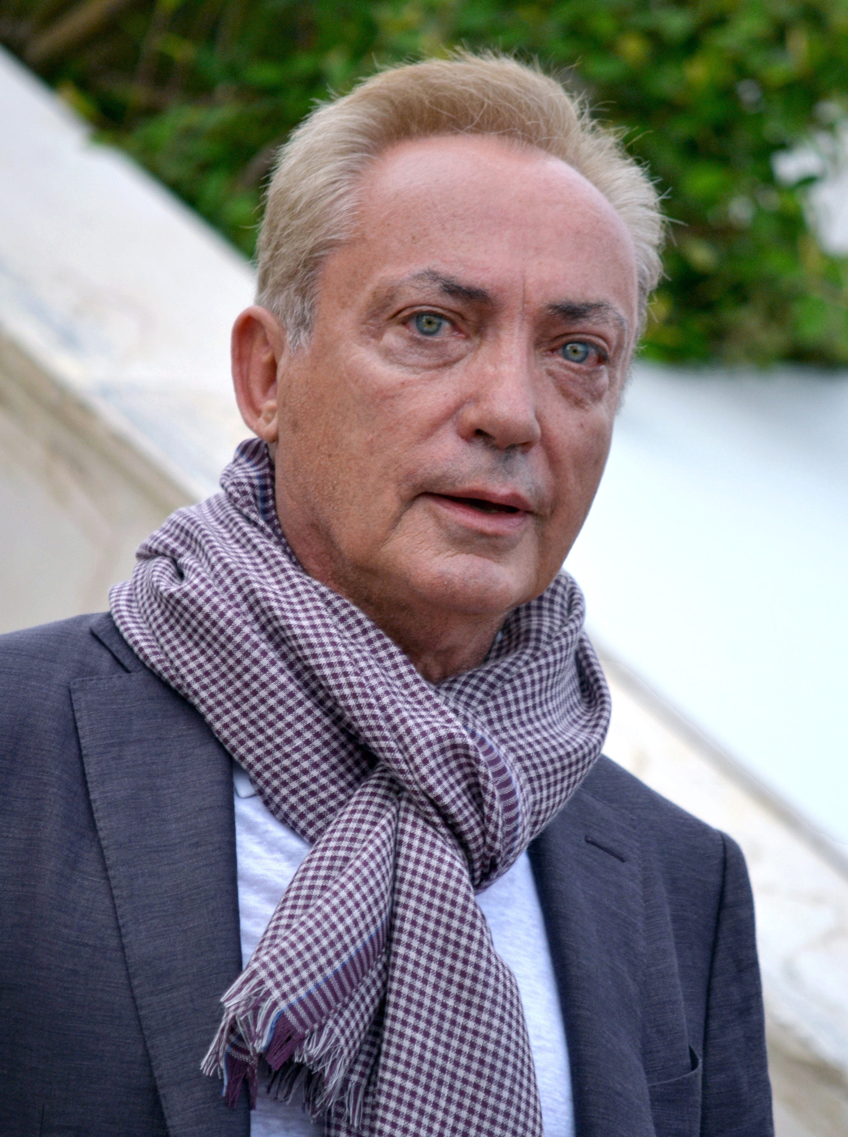 actor Udo Kier at the Cannes Film Festival